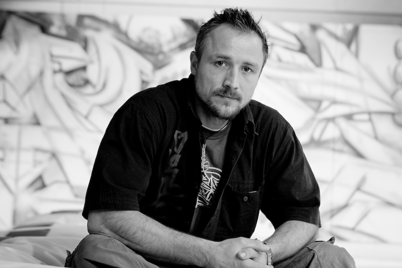 Photograph of Darco. From Darco Code Art, Wasted Talent #3, 2006